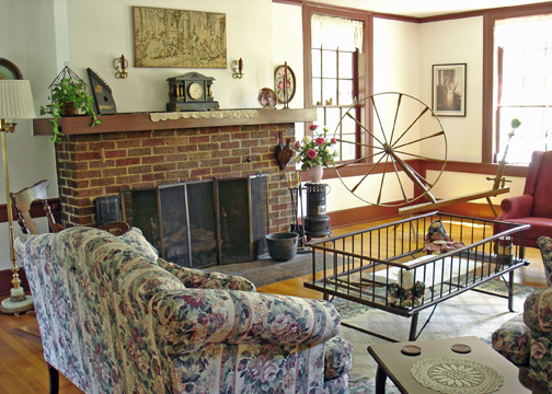 The Whitney Tavern Stand museum interior — in Kent County, Michigan. Listed on the US National Register of Historic Places (NRHP).